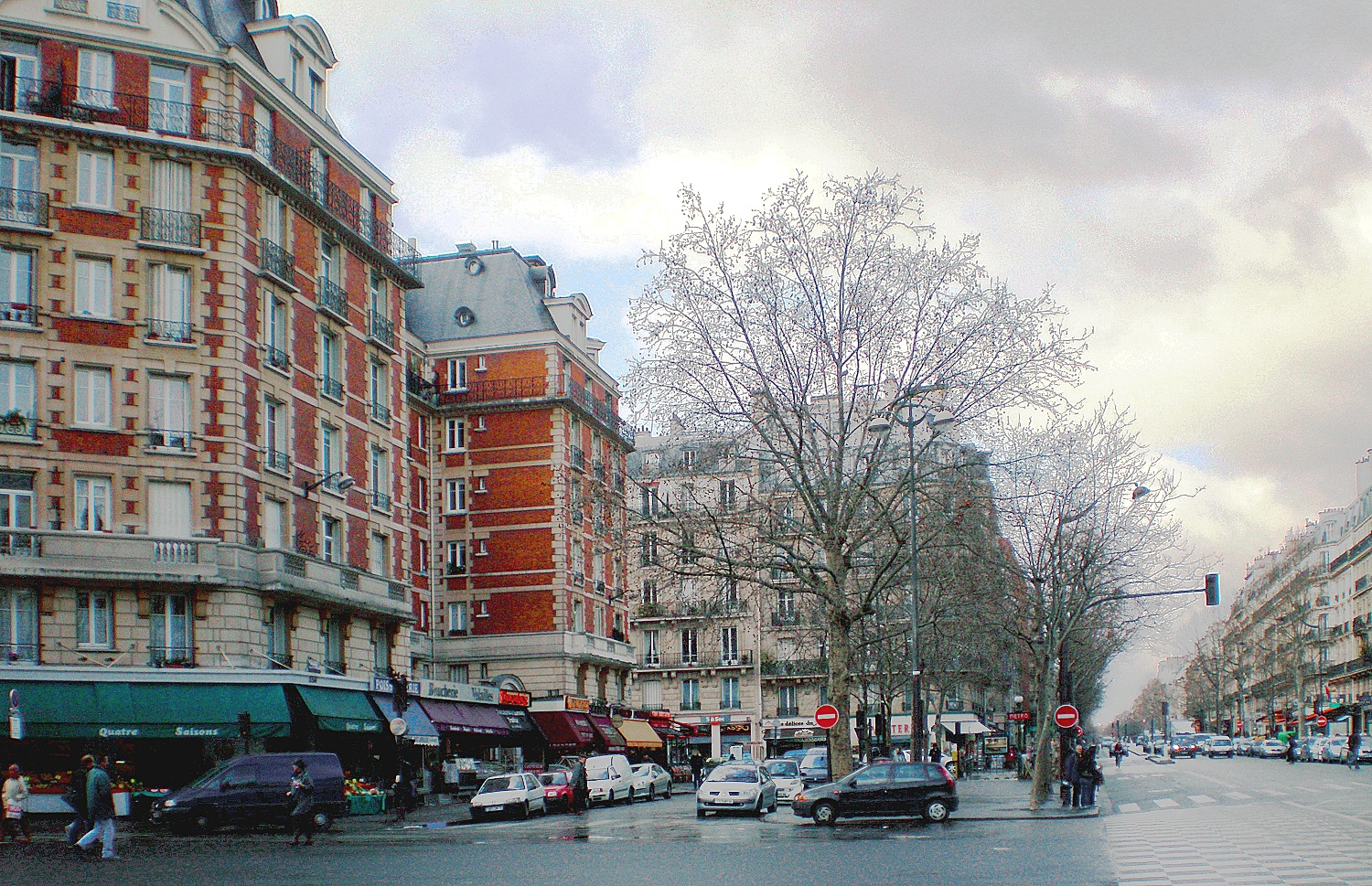 Place Maubert - Paris